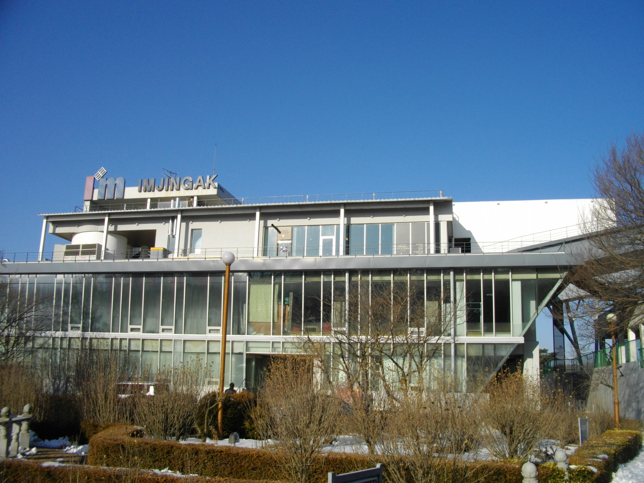 Imjingak